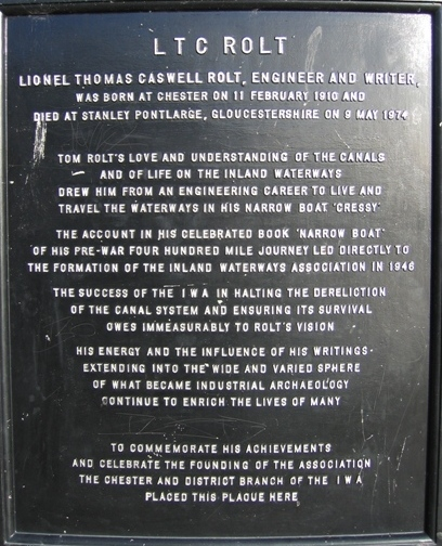 Plaque commemorating LTC Rolt. LTC Rolt was born in Chester in 1911 and this plaque commemorates his life, and the fact that his book 'Narrow Boat' "...led directly to the formation of the Inland Waterways Association in 1946". The plaque can be seen in situ in 678338